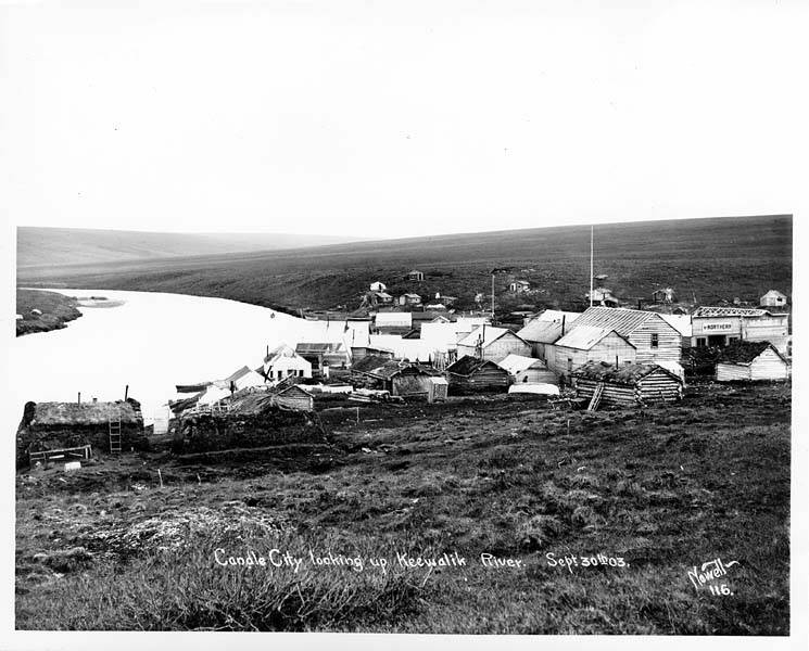 Caption on image: Candle City looking up Keewalik River. Sept. 30th 03. Nowell 116 Subjects (LCTGM): Cities & towns--Alaska; Log cabins--Alaska--Candle; Tents--Alaska--Candle; Rivers--Alaska Subjects (LCSH): Candle (Alaska); Kiwalik River (Alaska)